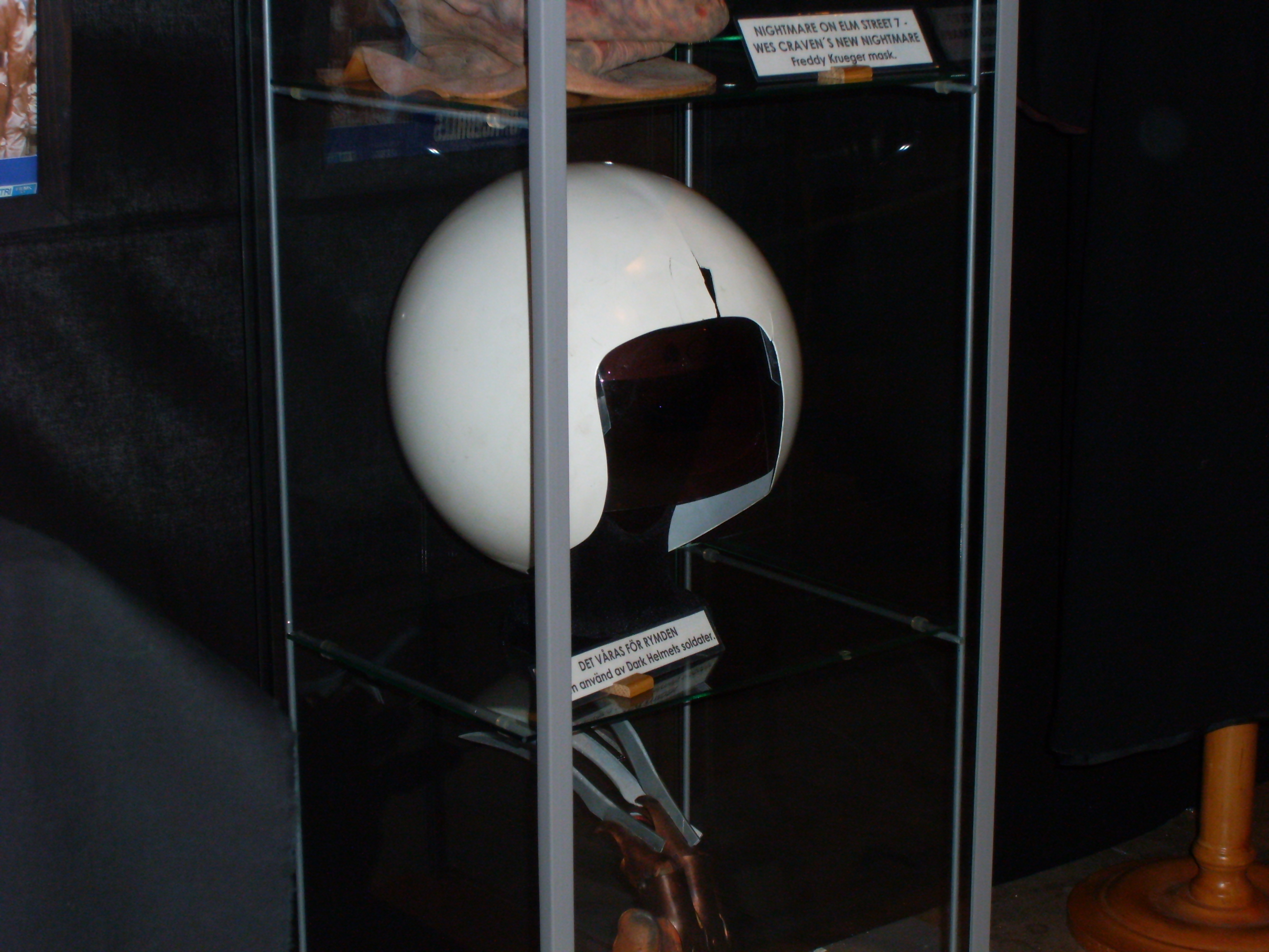 A helmet from the film Spaceballs at a sci-fi convent in Stockholm, Sweden.